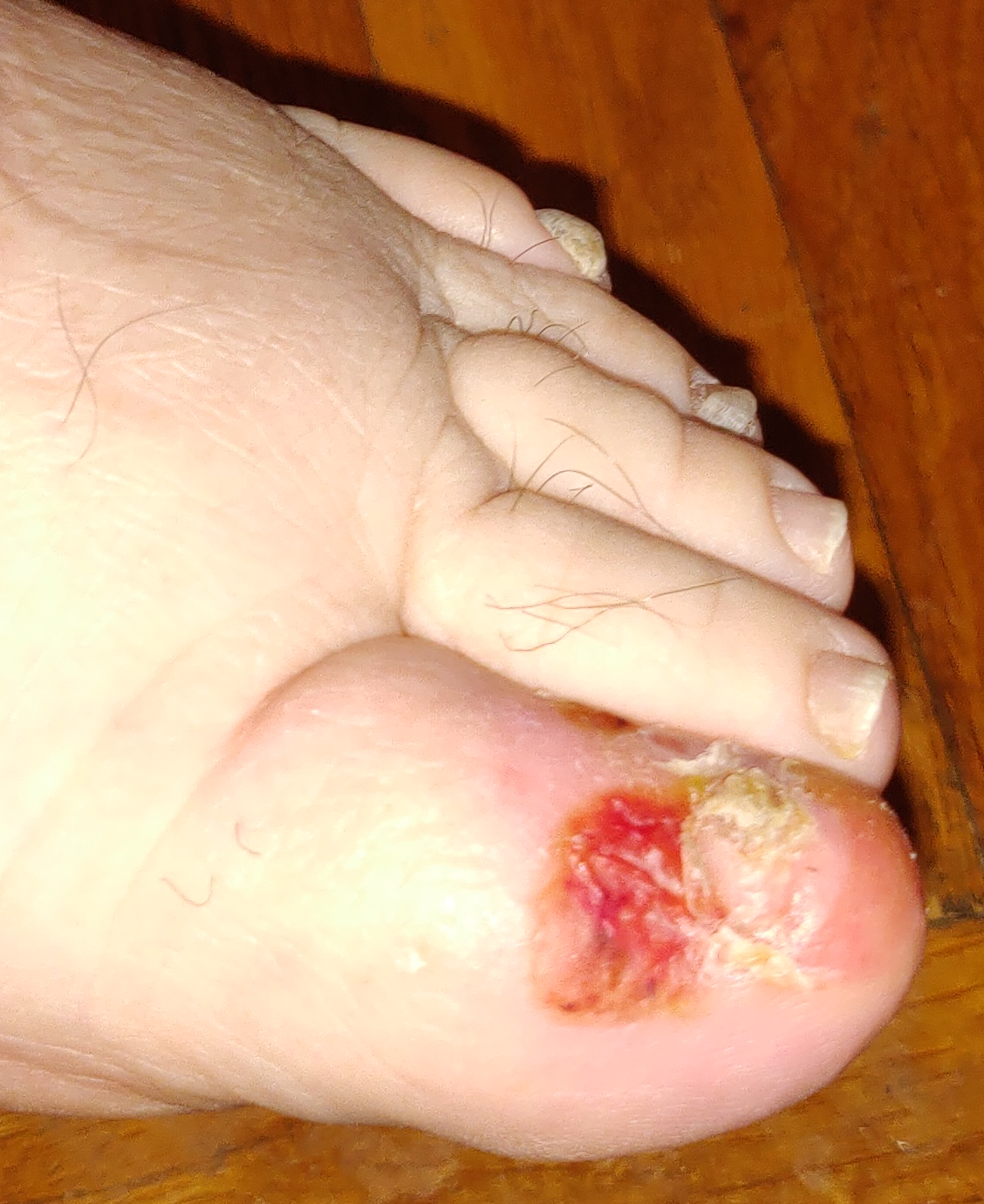 Advanced onychomycosis Srpskohrvatski / српскохрватски: Uznapredovala onihomikoza